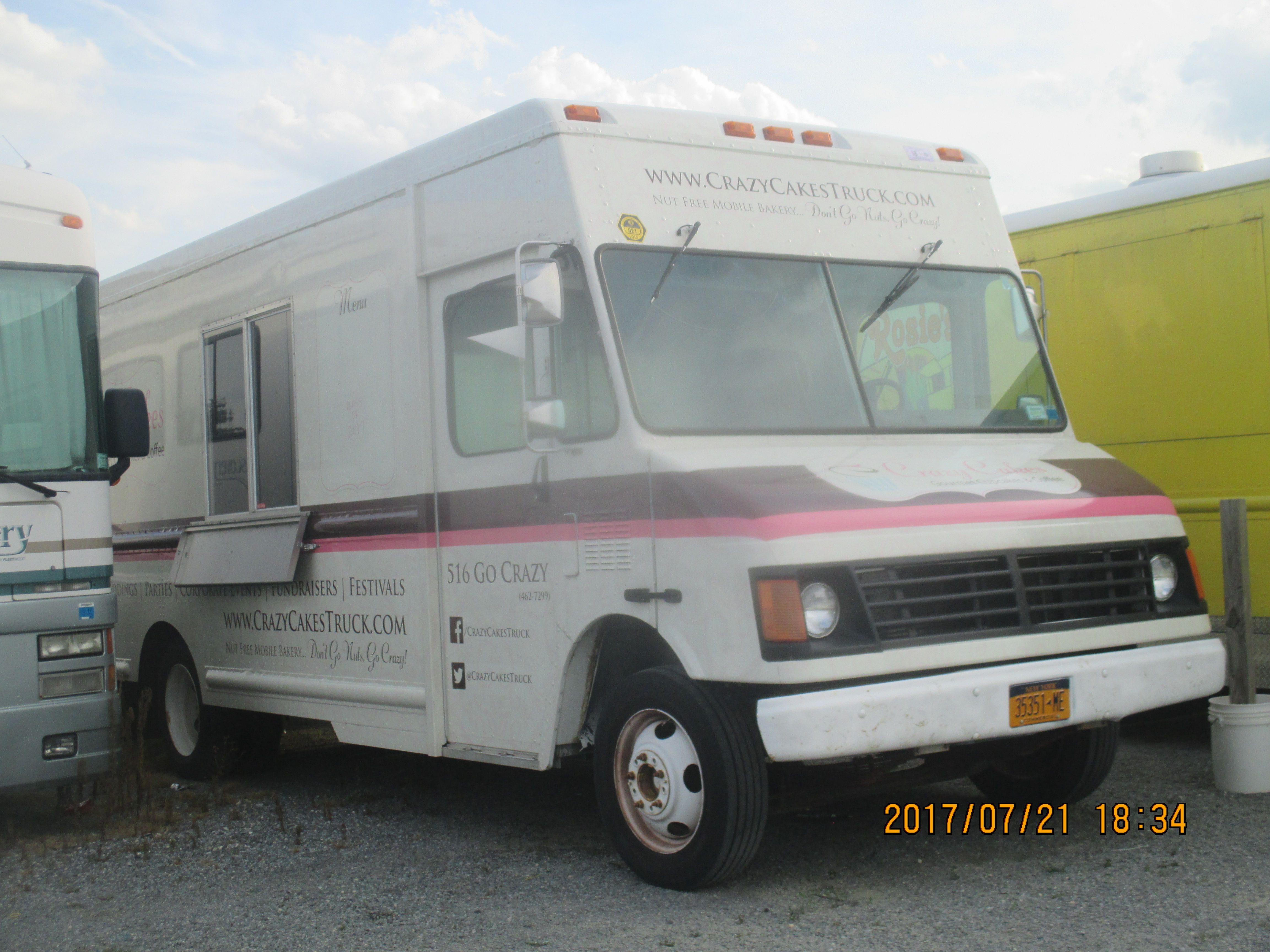 Workhorse P42 from Crazy Cakes Truck